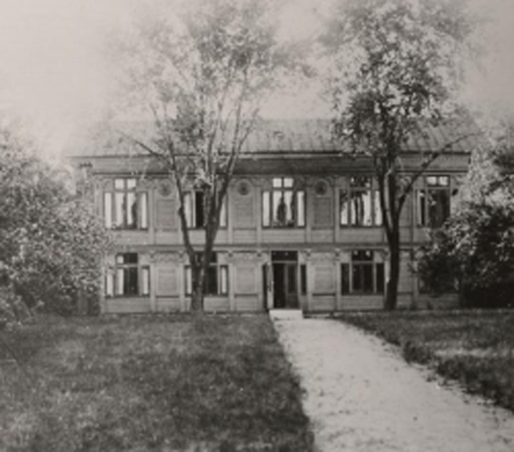 Mariedal, a mansion in Gothenburg, Sweden